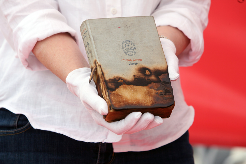 The remains of a copy of a book of Stefan Zweig, the novel Amok (1922), partially burned during the Bücherverbrennungen (the Nazi book burnings) promoted by National Socialists during the 1930s